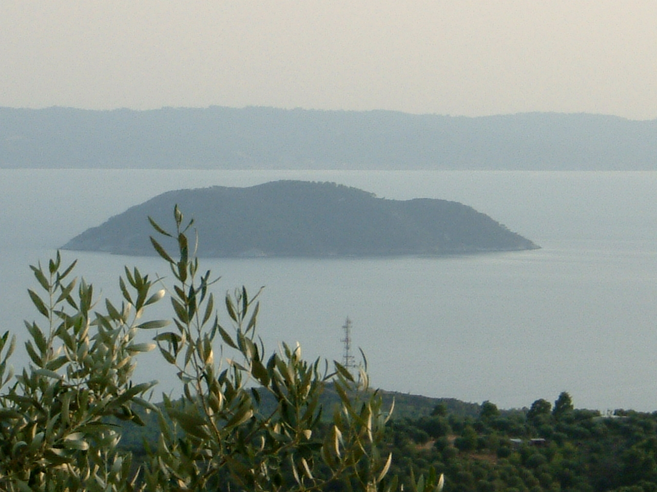 Kelyfos island, Toroneos Gulf, Chalkidiki, Greece. Seen from the village of Parthenonas near Neos Marmaras, Sithonia.